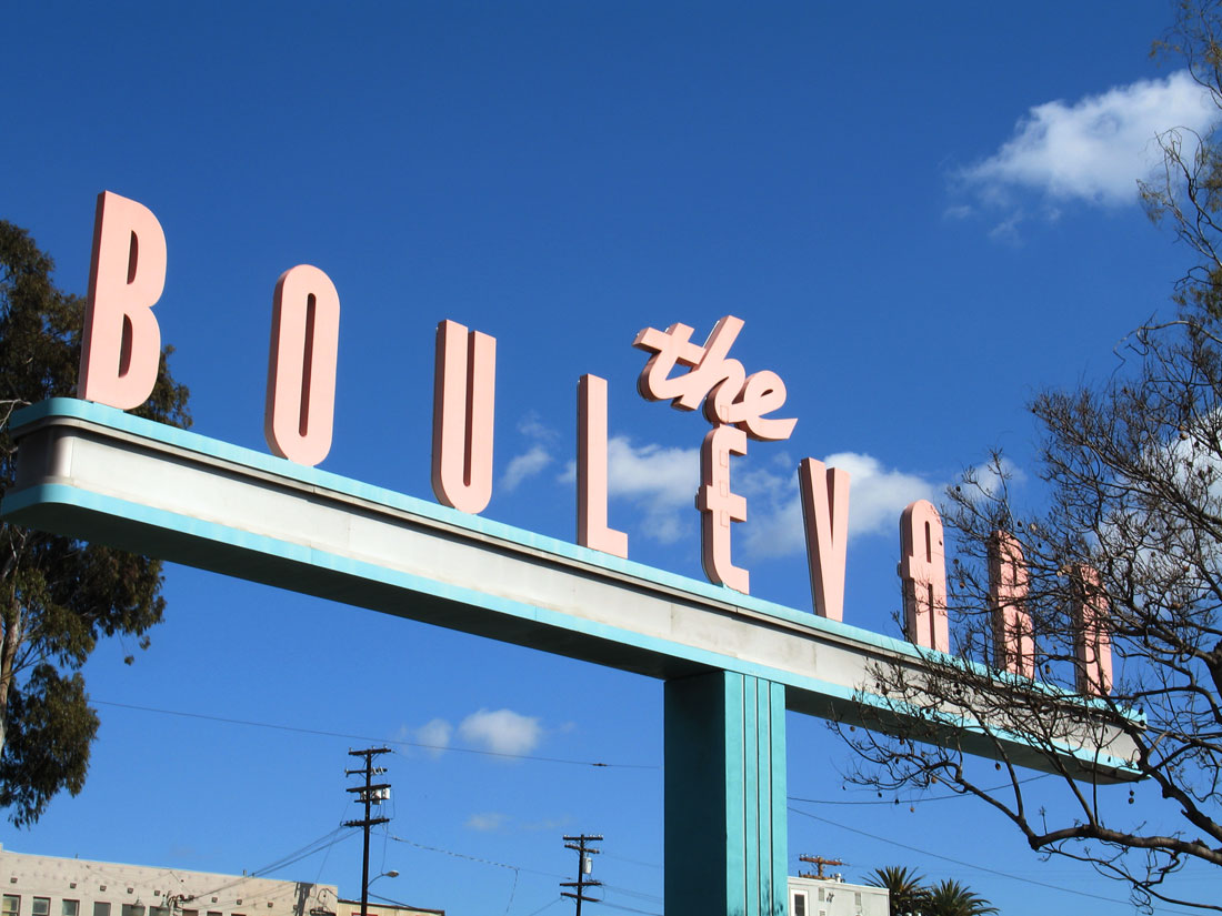 Sign at El Cajon Boulevard, San Diego